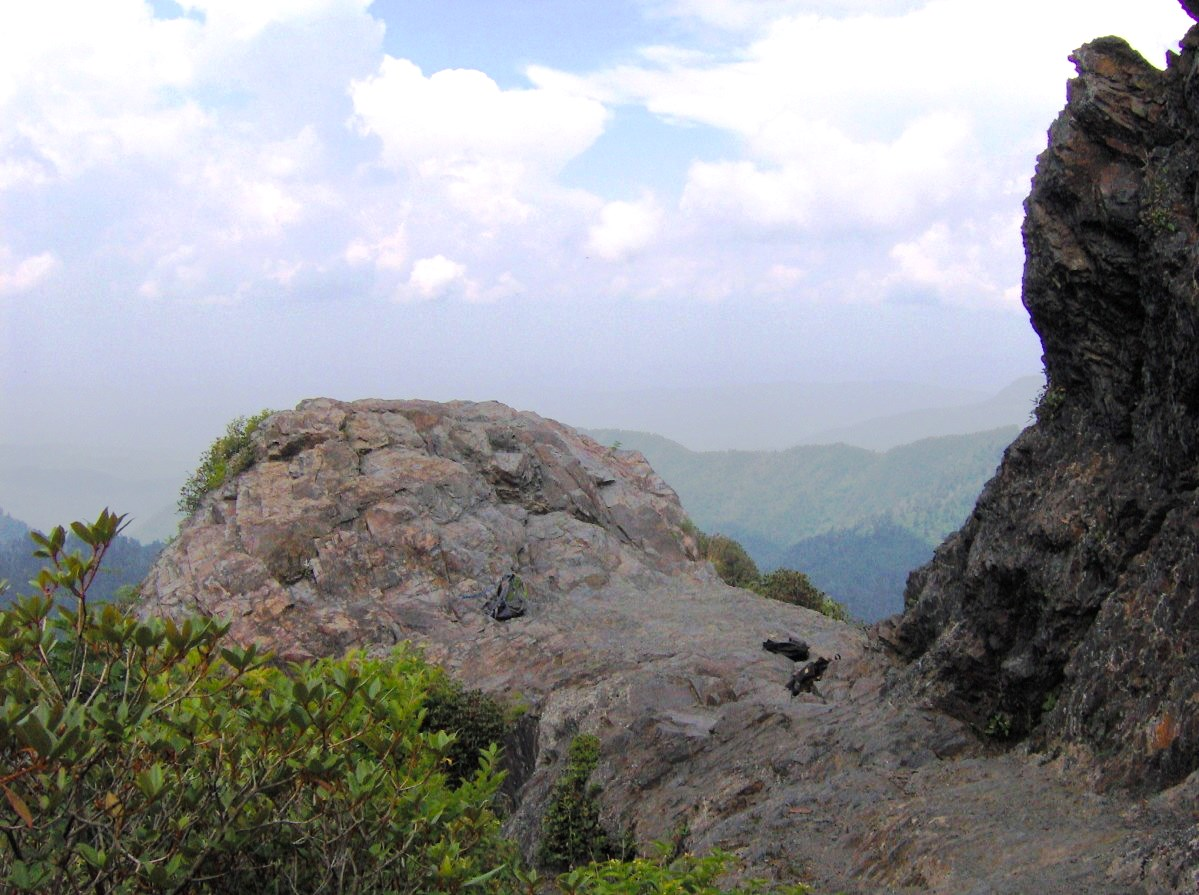 The characteristic boulder-like protrusion on the northern face of Charlies Bunion, in the Great Smoky Mountains of Tennessee and North Carolina. Hikers' backpacks are scattered about the base of the rock. The slate-rich summit on the right.